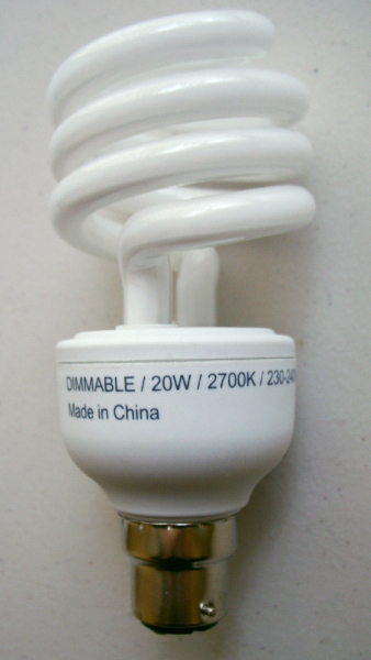 A dimmable spiral integrated CFL.